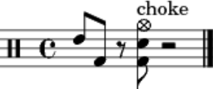 Resized version of File:Sting.png